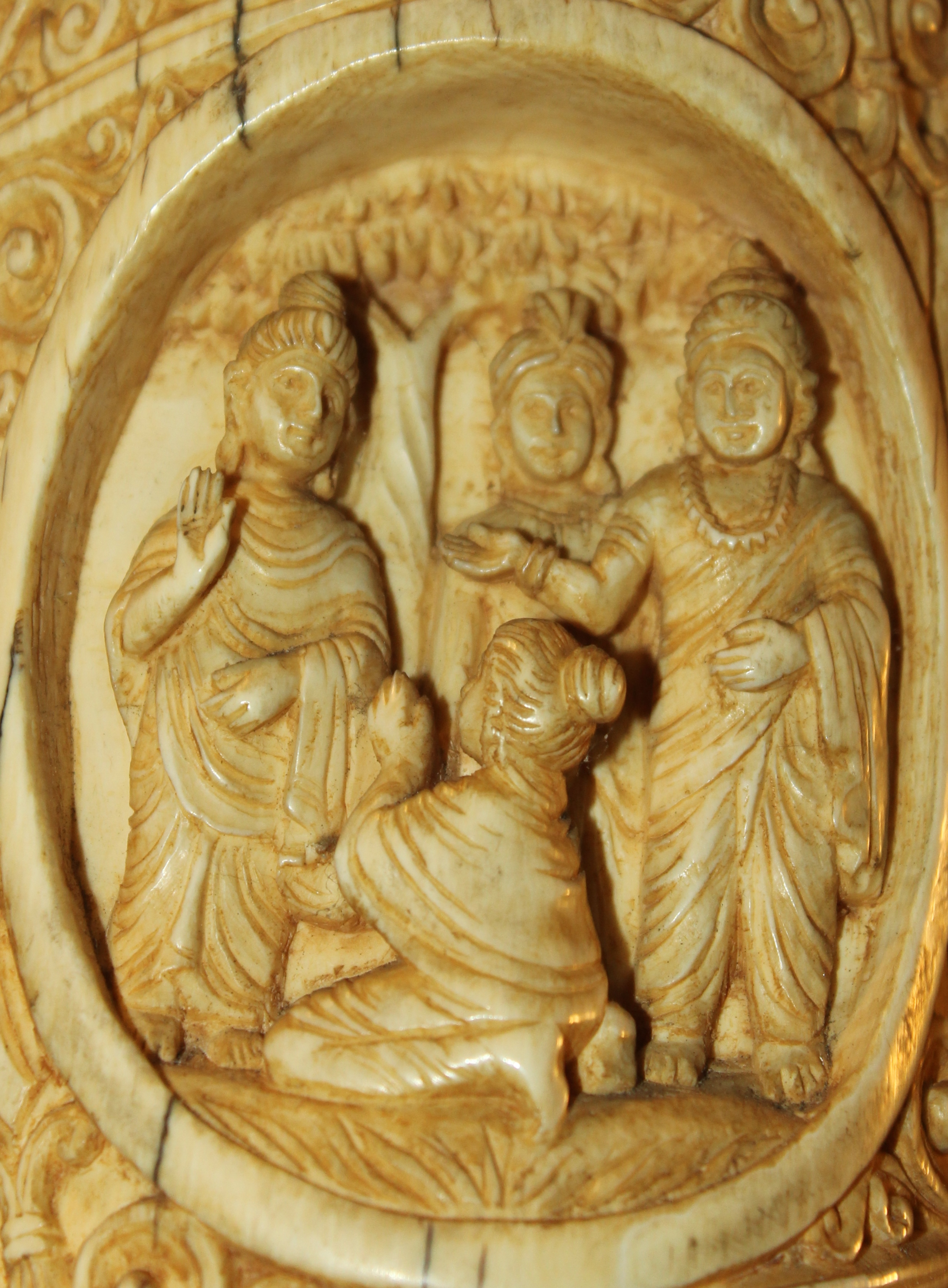 Roundel 31: Sariputra and Maudgalyayana become the followers of Buddha